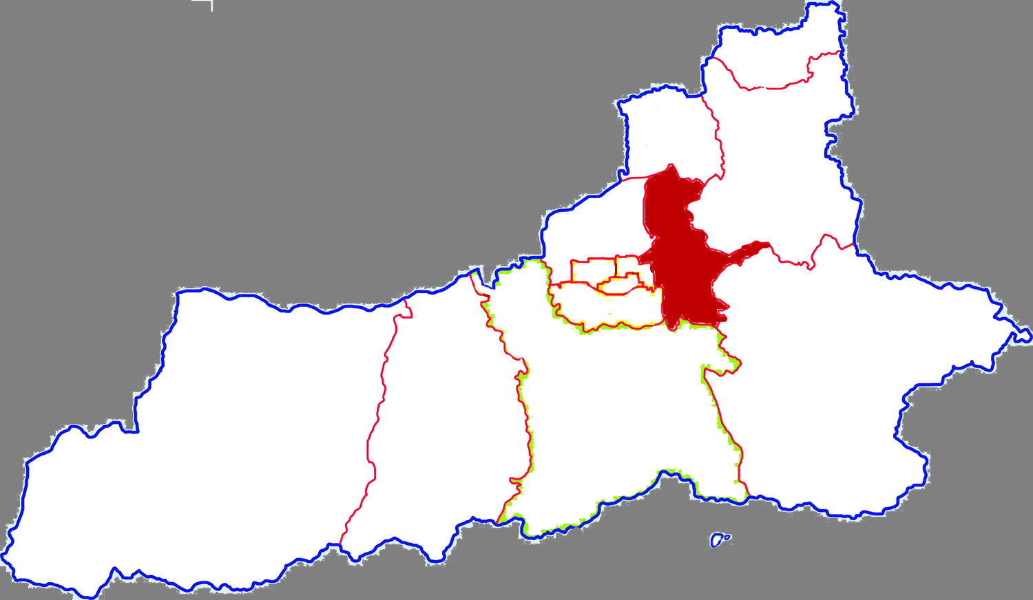 Location of Baqiao district in Xi'an city, China